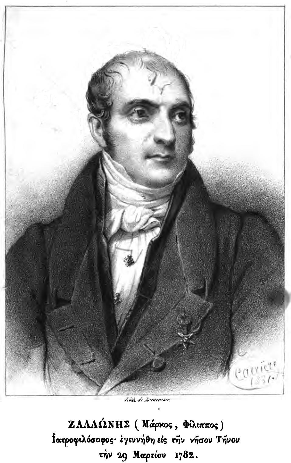 Markos Filippos Zalonis, Greek scholar, 18th century